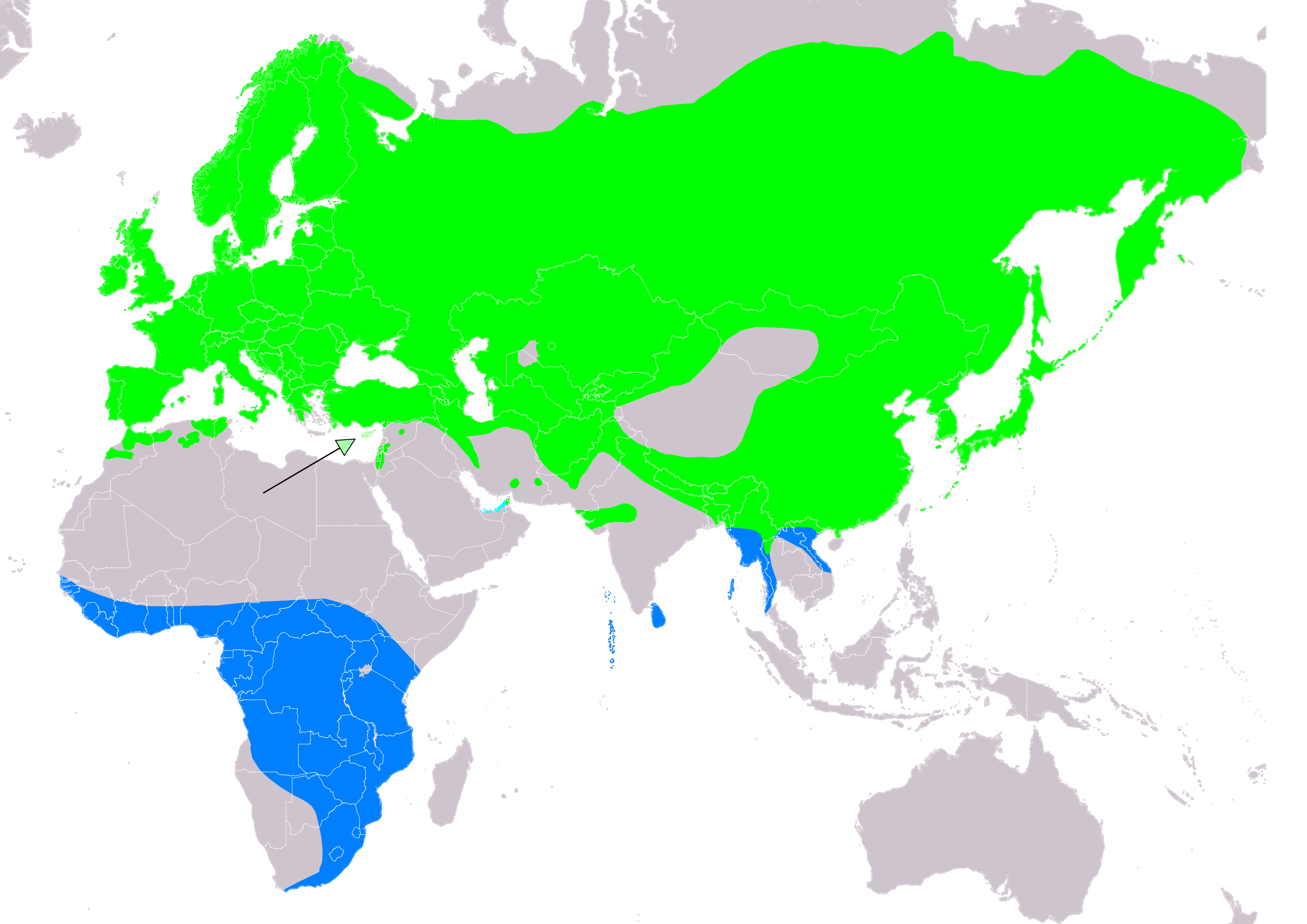 Distribution map of common cuckoo (Cuculus canorus) according to IUCN version 2019-3; key: Legend: Extant, breeding (#00FF00), Extant, passage (#00FFFF), Extant, non-breeding (#007FFF), Possibly Extant (breeding) (#AAFFAA)